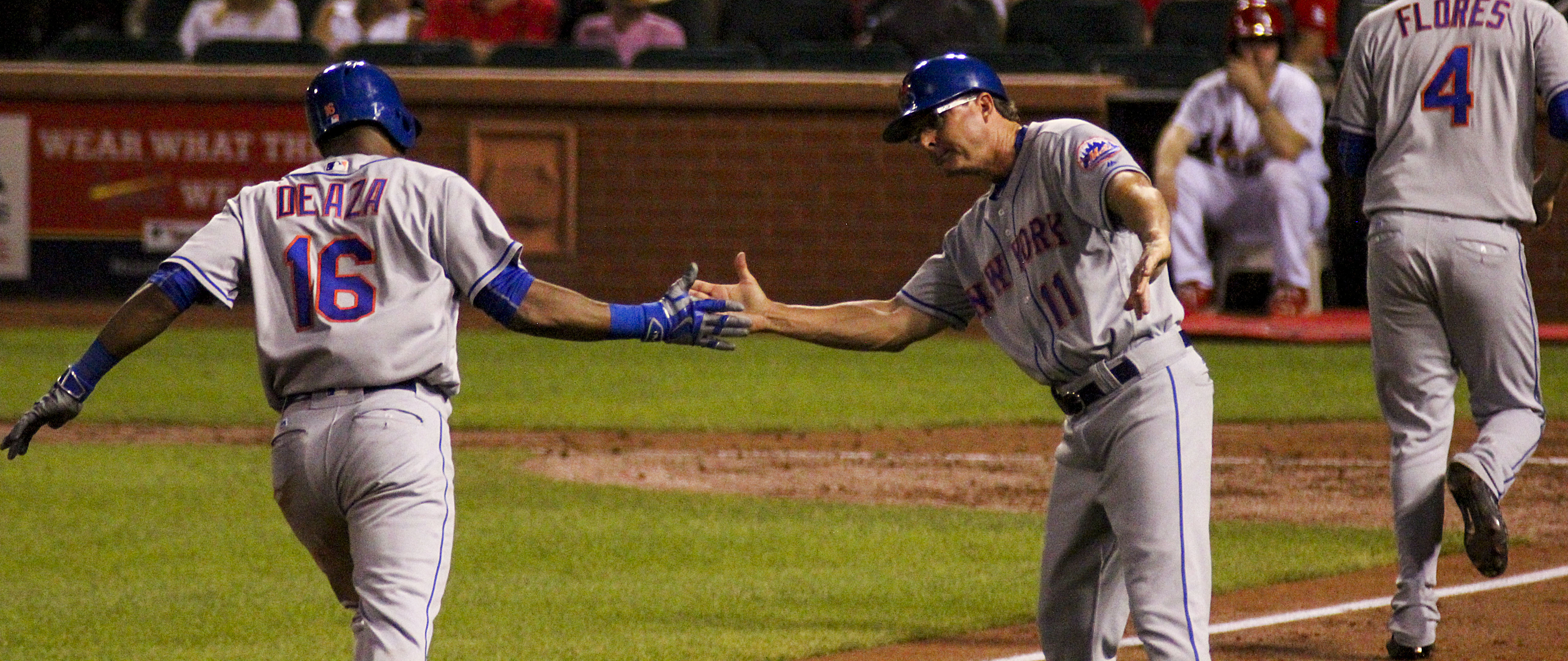 Mets third base coach Tim Teufel gives De Aza the glad hand. 2016